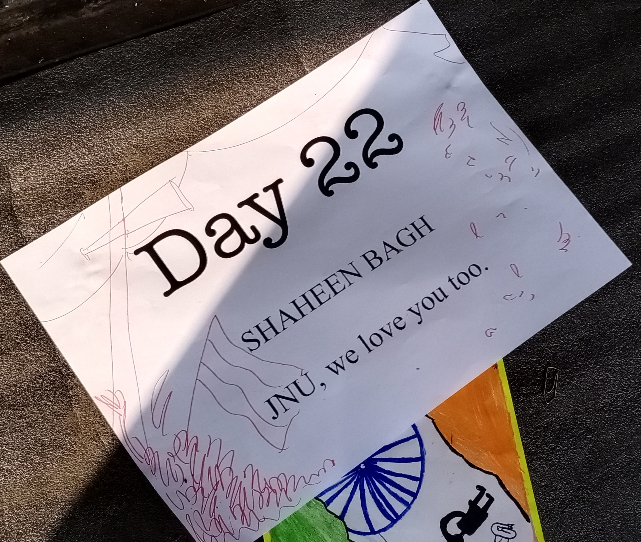 Day 22 Remebering JNU printout shaheen bagh new delhi 7 jan 2020